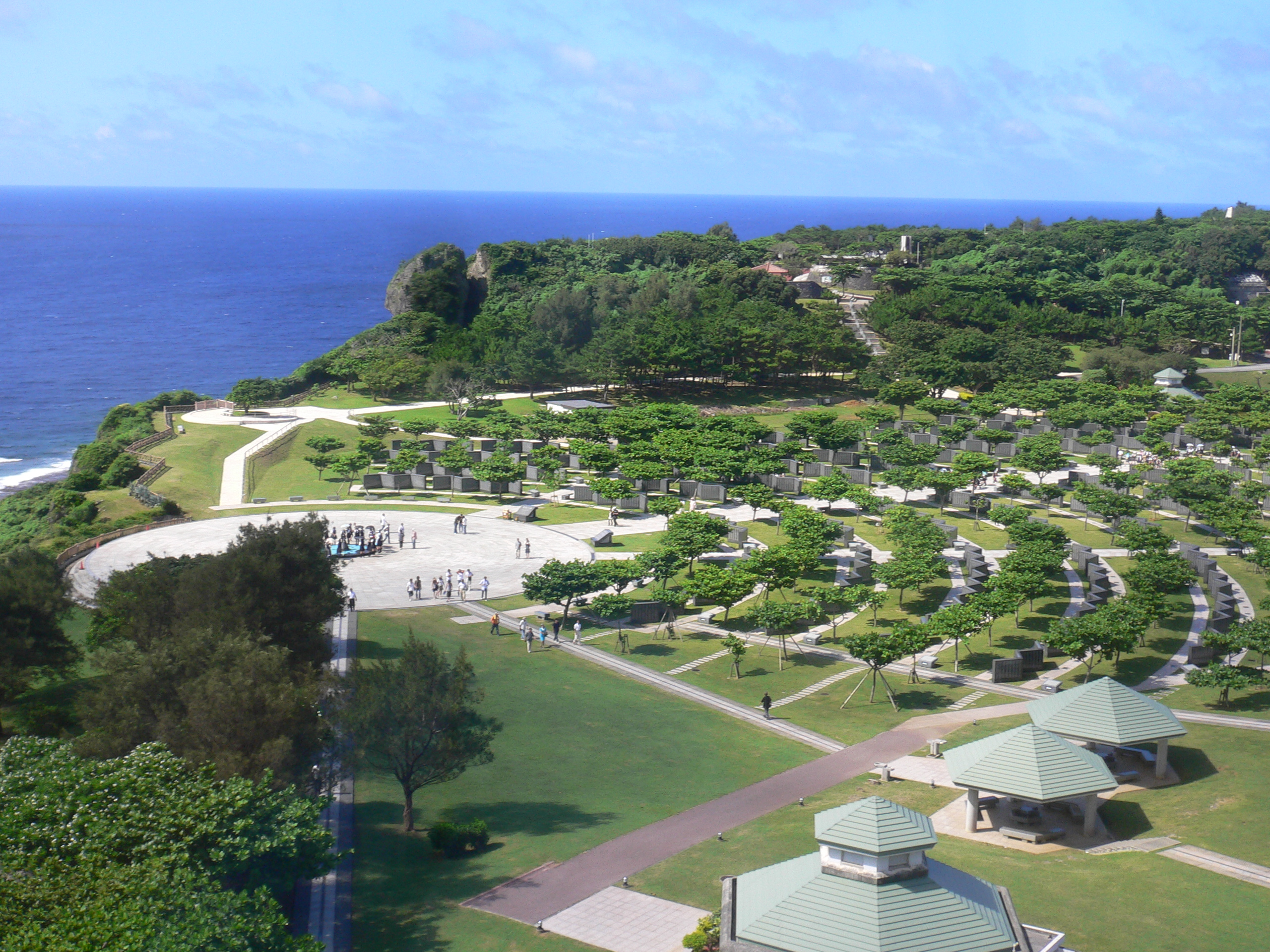 Okinawa Prefectural Peace Memorial Museum (沖縄県平和祈念資料館), Itoman C, Okinawa P.